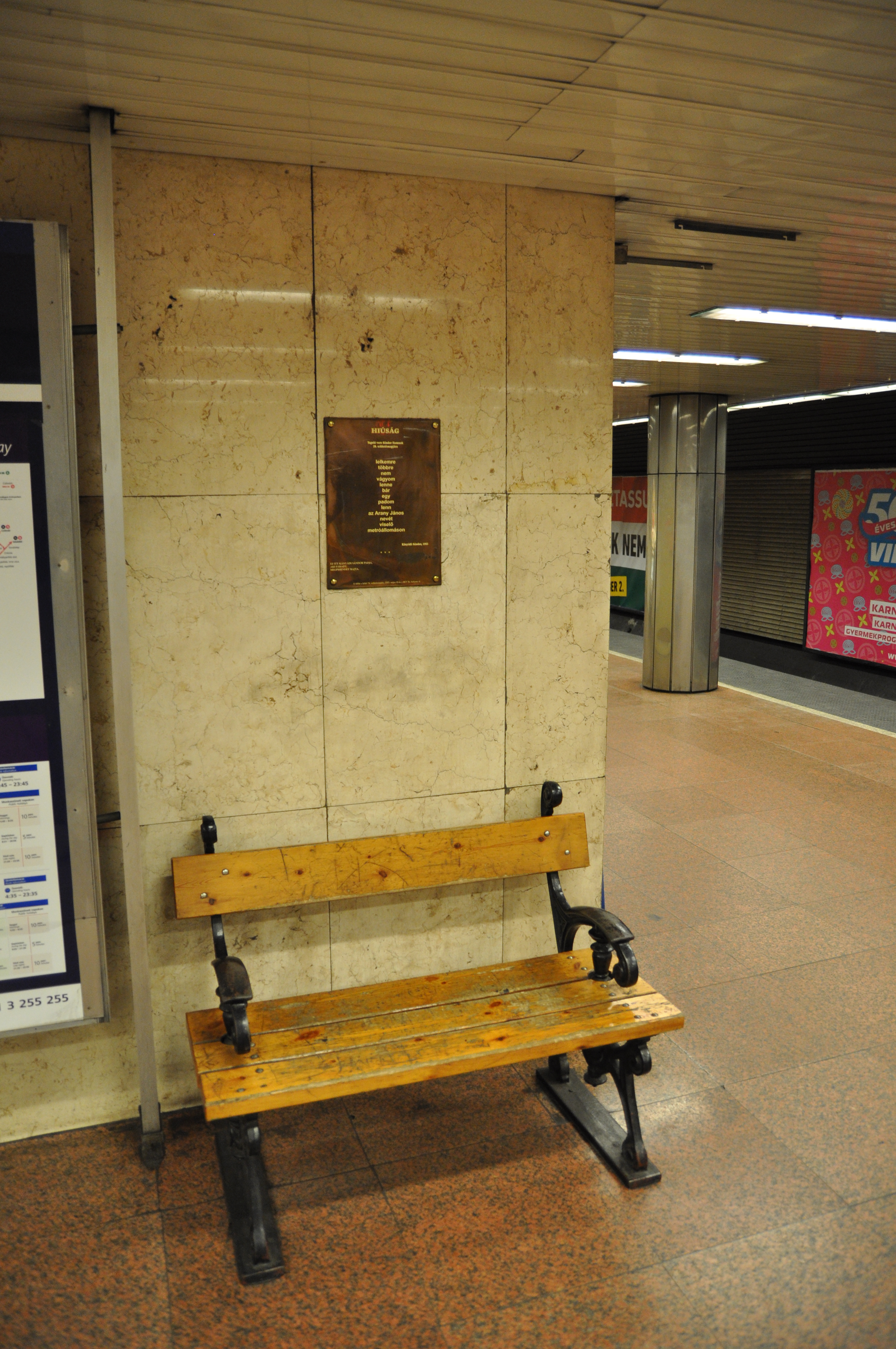 Budapest, metró 3, Arany János utca